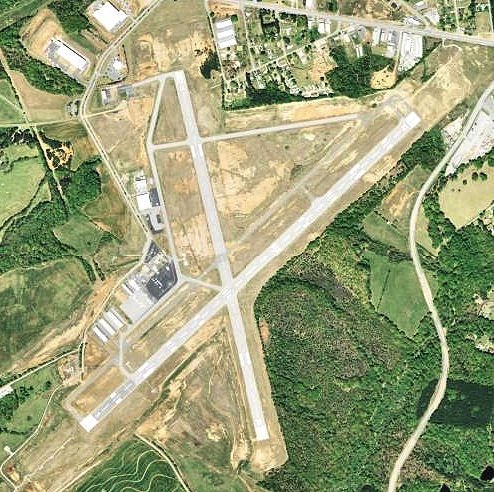 USGS digital orthophoto of Anderson Regional Airport in South Carolina